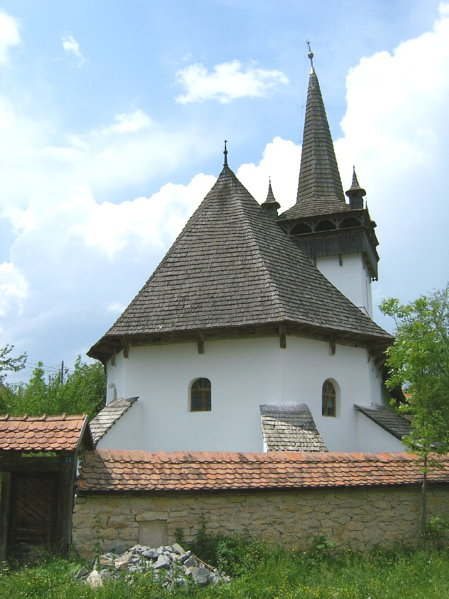 View from Domoşu, Cluj county, Romania